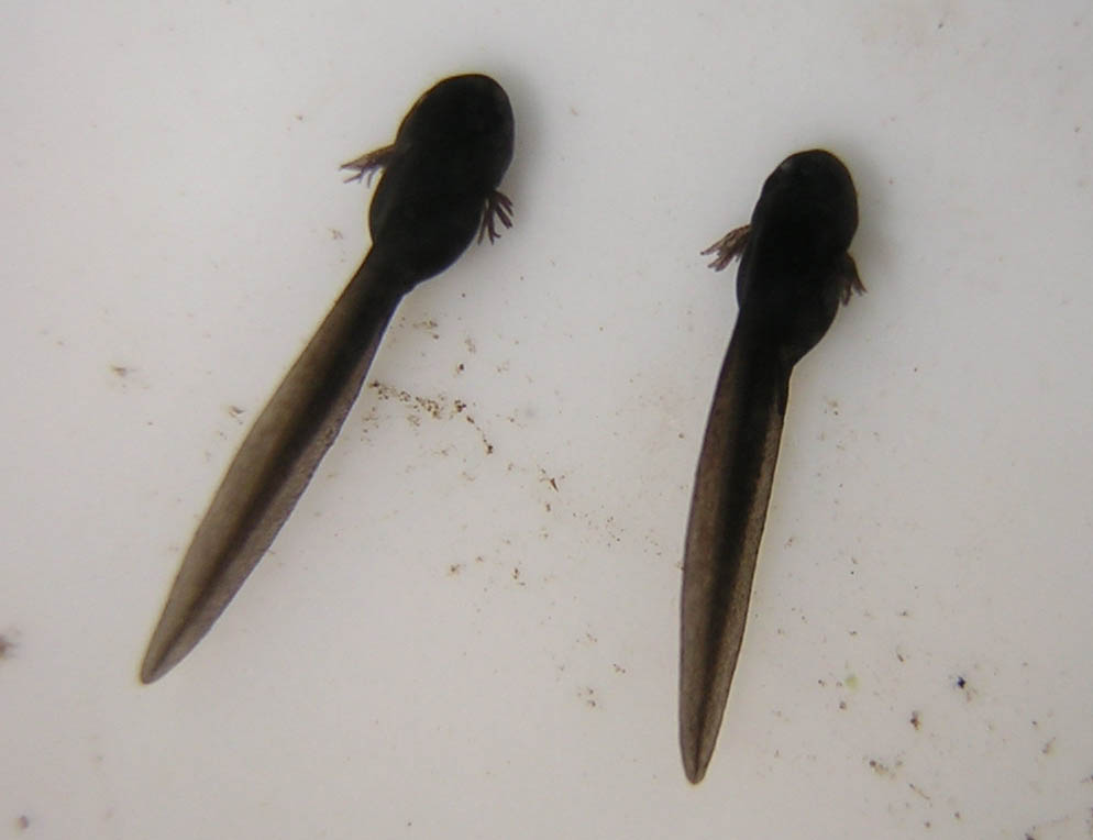 The tadpoles from File:Frogspawn closeup.jpg, 10 days later.